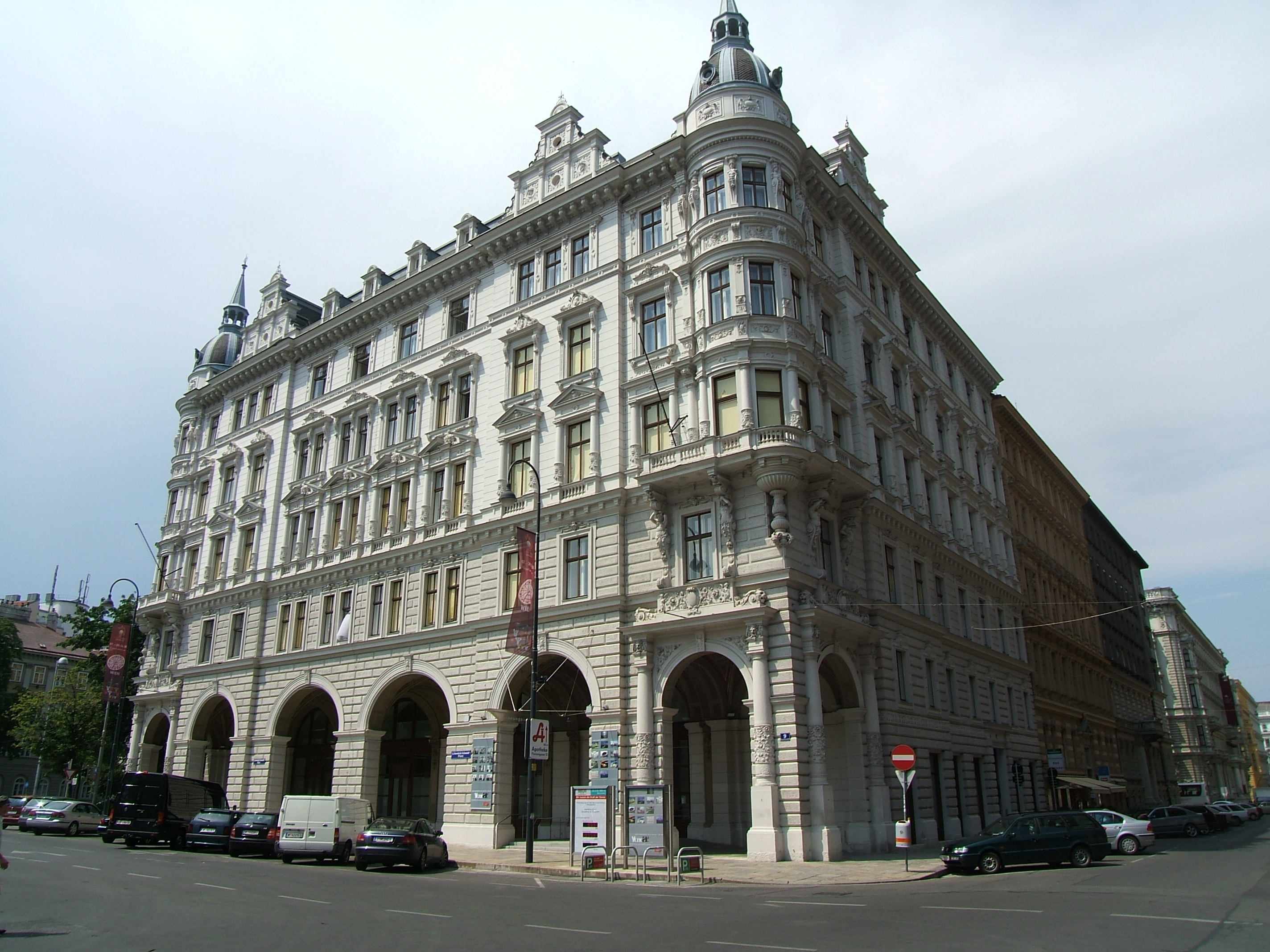 Palais Obentraut in Vienna 1st district Friedrich-Schmidt-Platz 8-9